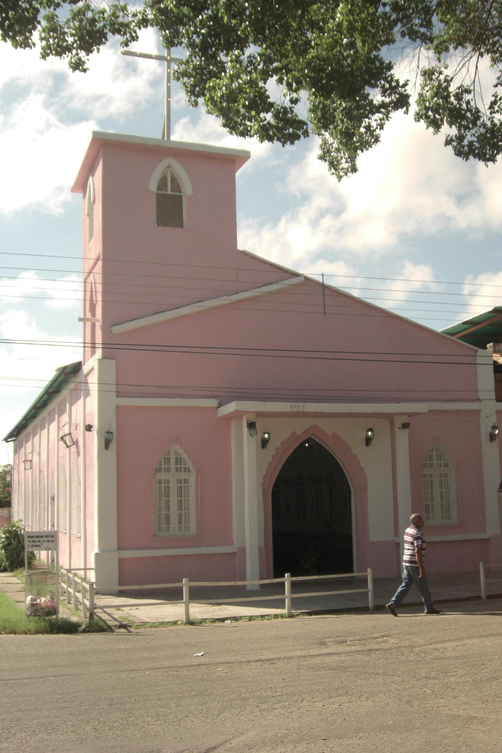 Iglesia ubicada en el Municipio Biruaca